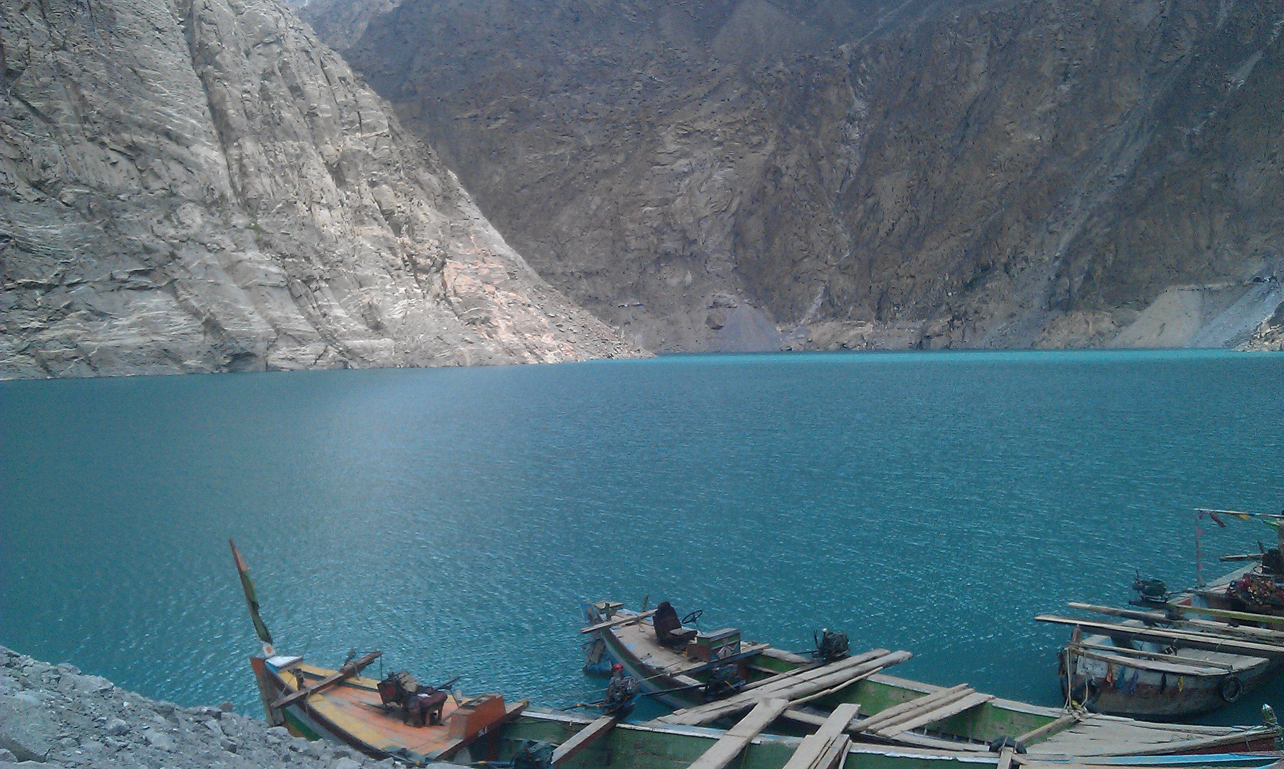 Atta abad lake